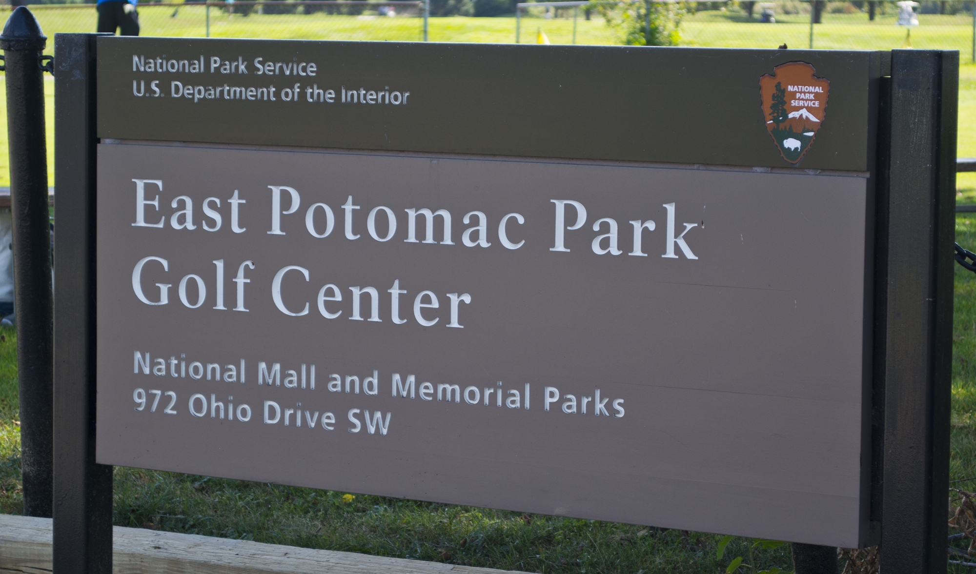 Sign at the East Potomac Golf Course in East Potomac Park in Washington, D.C., in the United States.